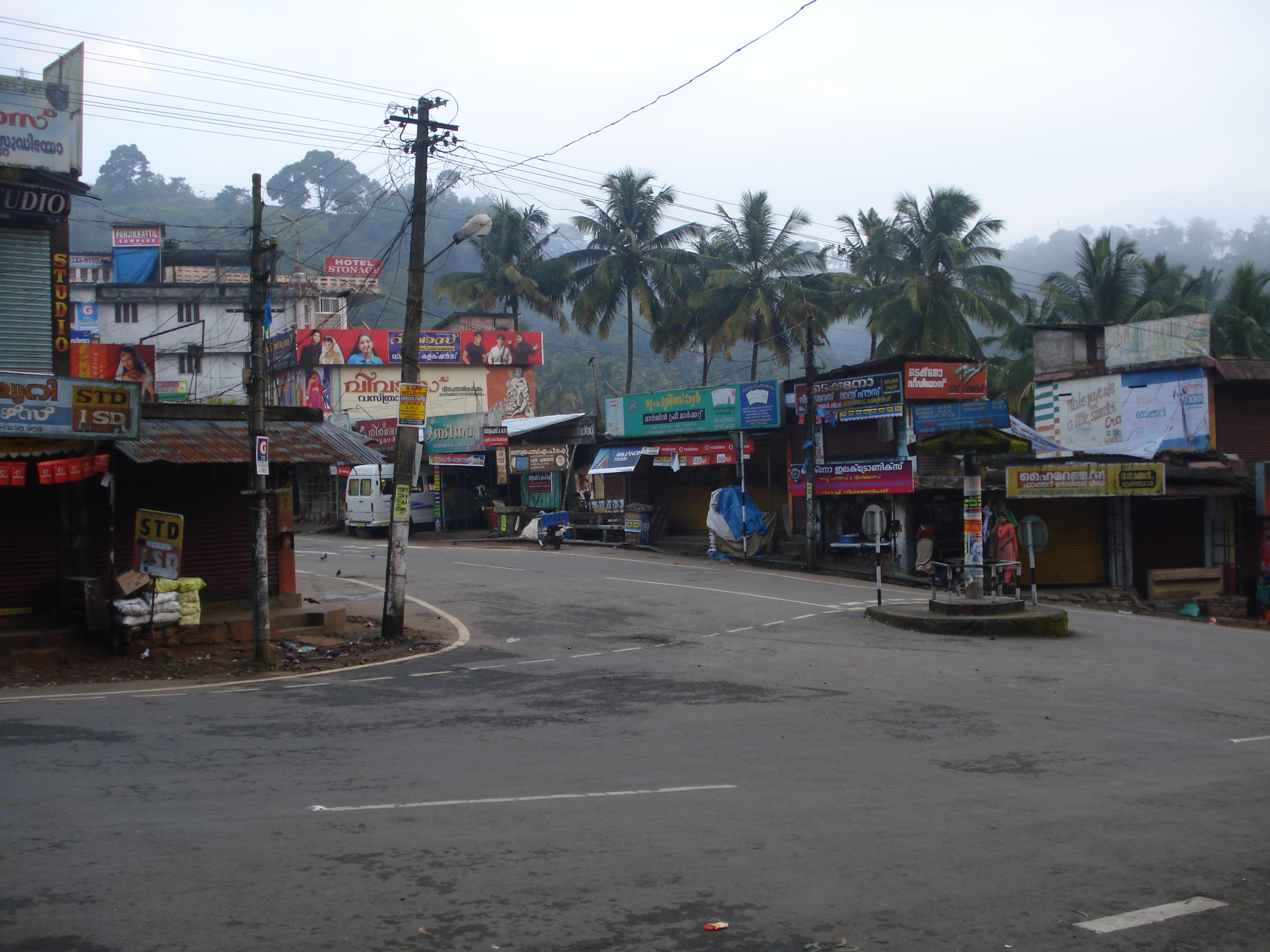 Cheruthoni :a Township near Painav-The district Head Quarters of Idukki. Kerala State.